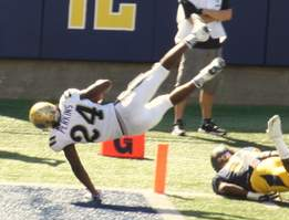 Paul Perkins of UCLA Bruins falls into end zone against California Golden Bears.